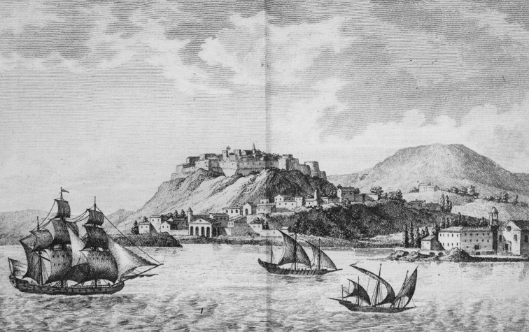 Naxos Kastro (Gravure pour /Engraving for Grasset de Saint-Sauveur Voyage historique)